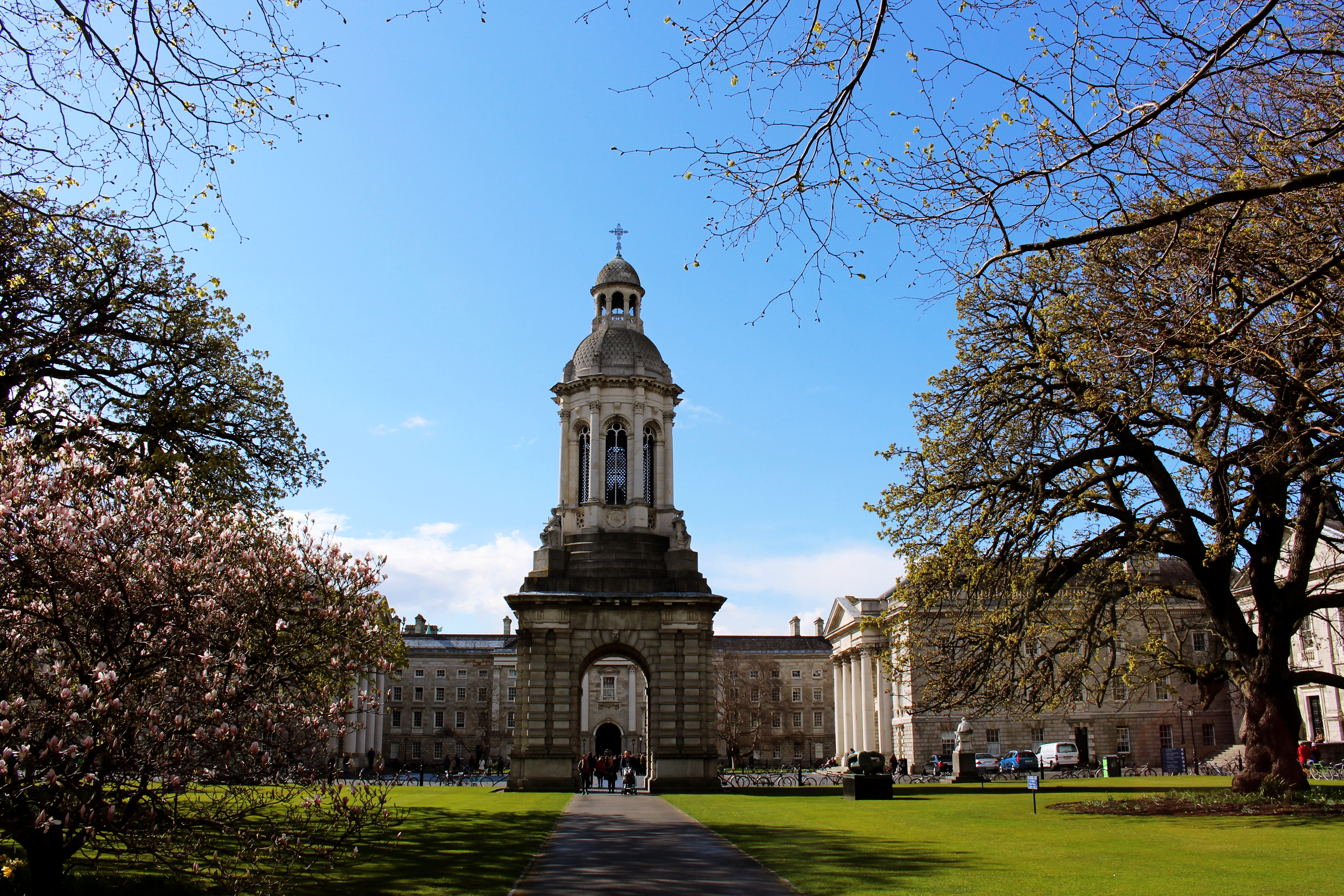 The Campanile of Trinity College Dublin in spring